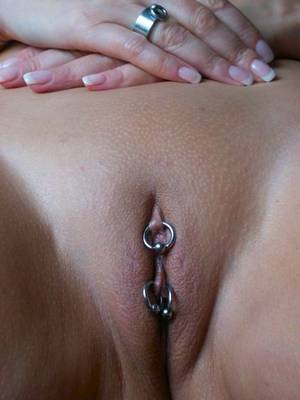 Inner labia pierced